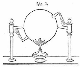 Heronsball, by Heron von Alexandria.